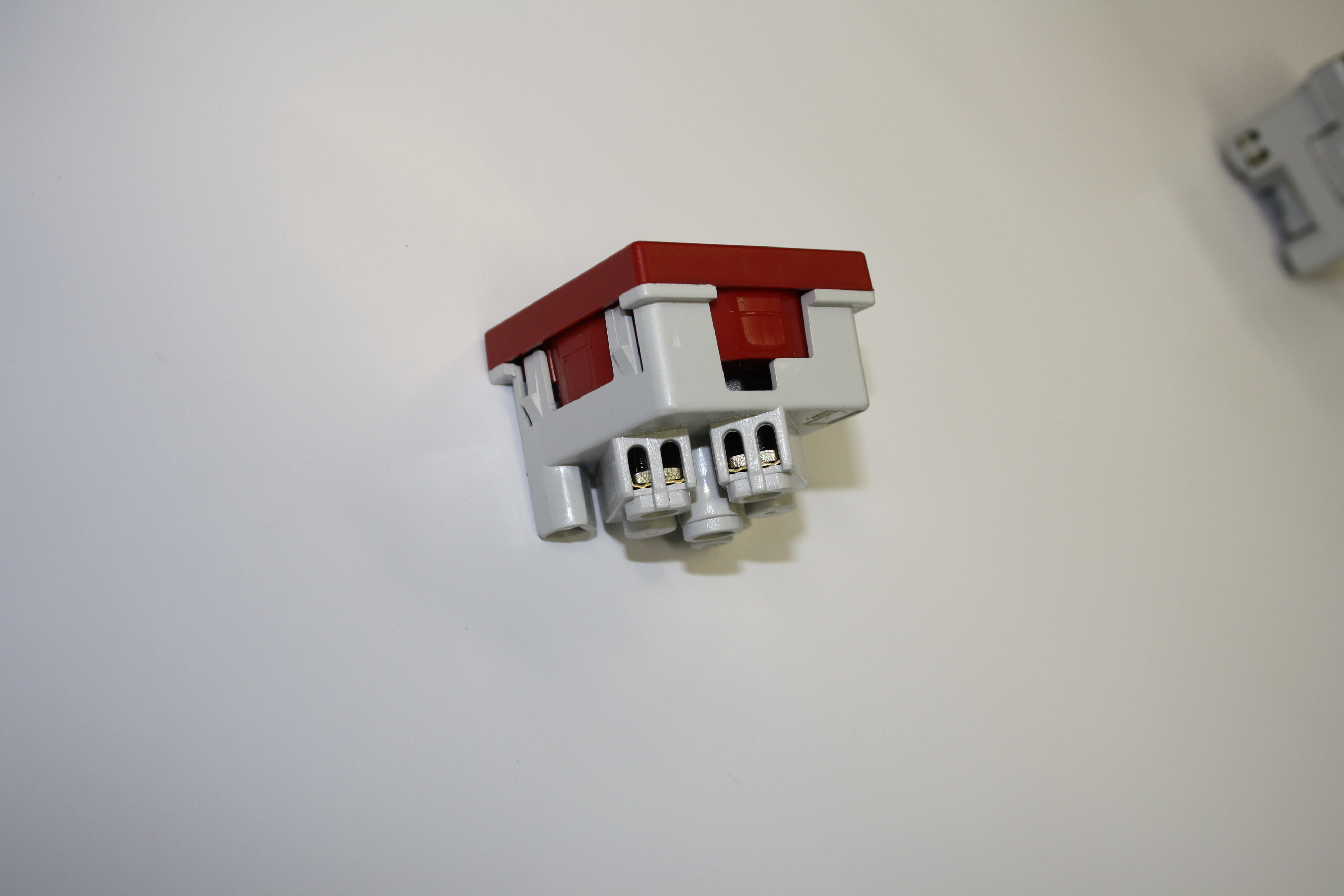 Power socket, terminal for 2 wires